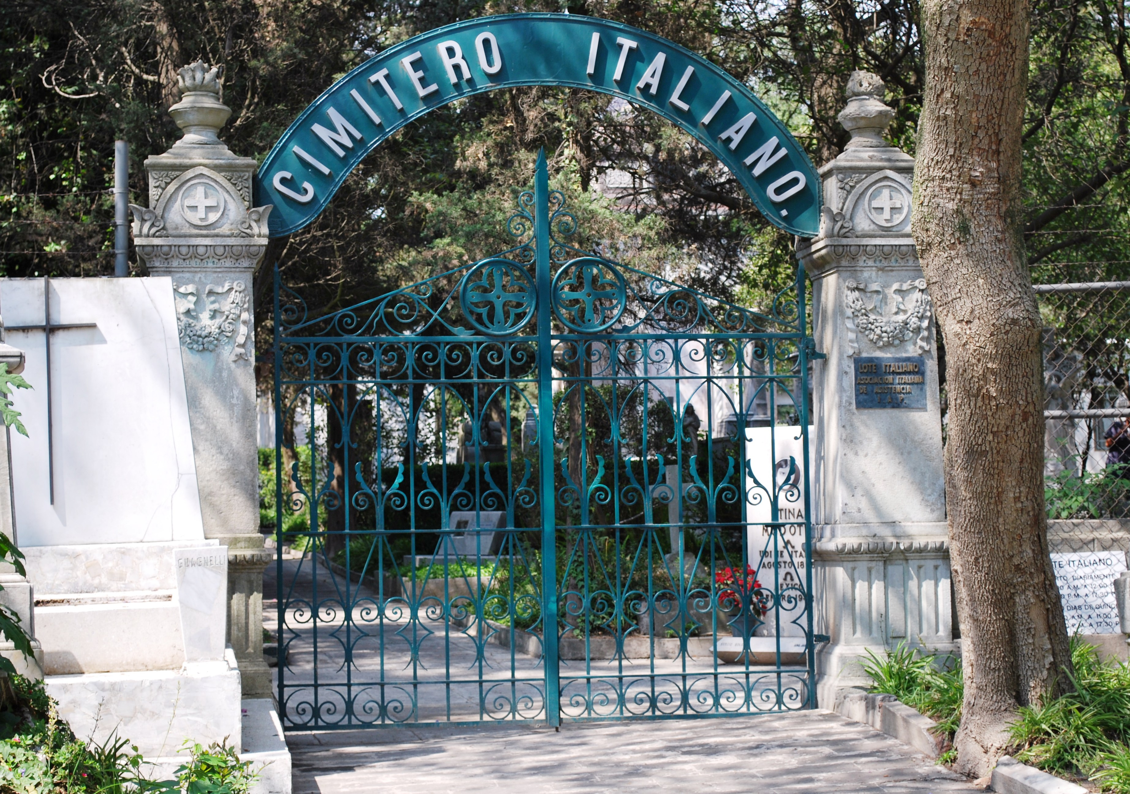 Entrance to the Italian section of the Panteon Civil de Dolores cemetery in Mexico City